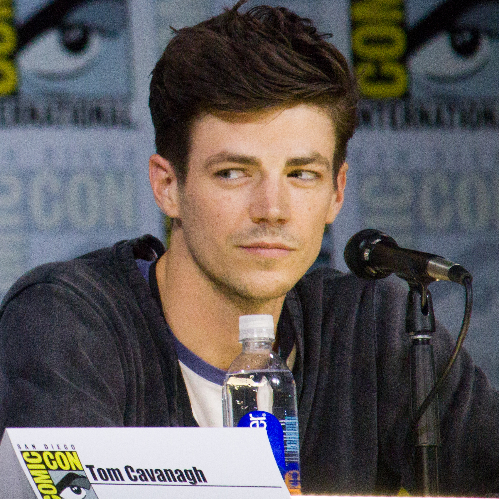 Grant Gustin speaking at the 2017 San Diego Comic Con International, for "The Flash", at the San Diego Convention Center in San Diego, California.